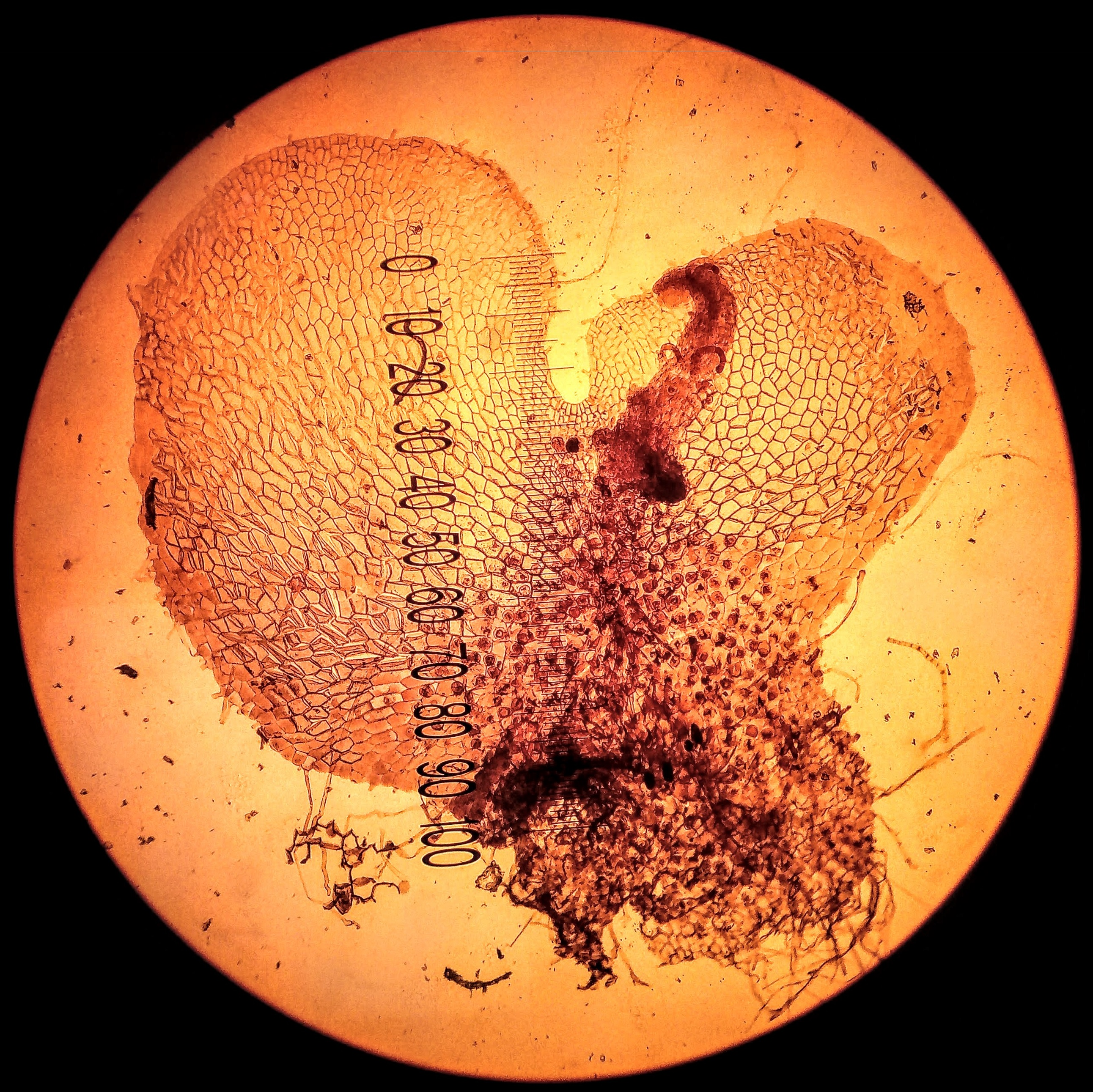 The prothallium (prothallus) of Polypodium vulgare. Taken with a light microscope on x4 magnification.